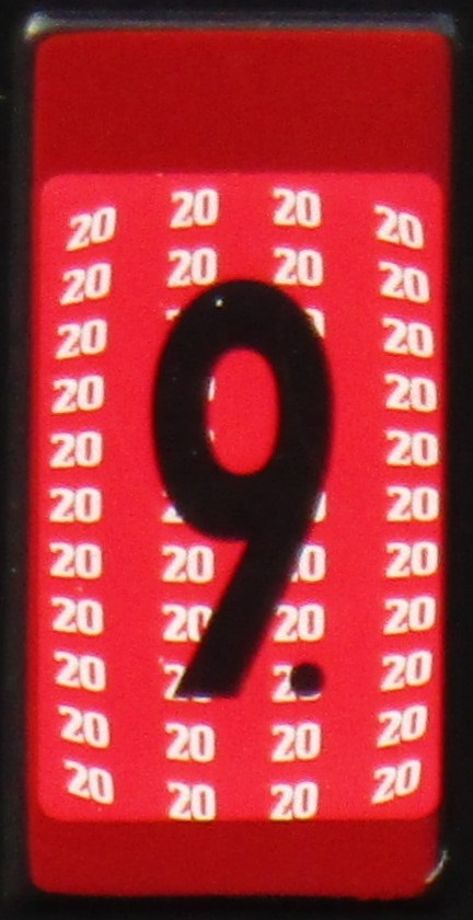 Control mark for temporary license plates in Liechtenstein (and Switzerland), showing the year and the month in which the validity expires (September 30, 2020).